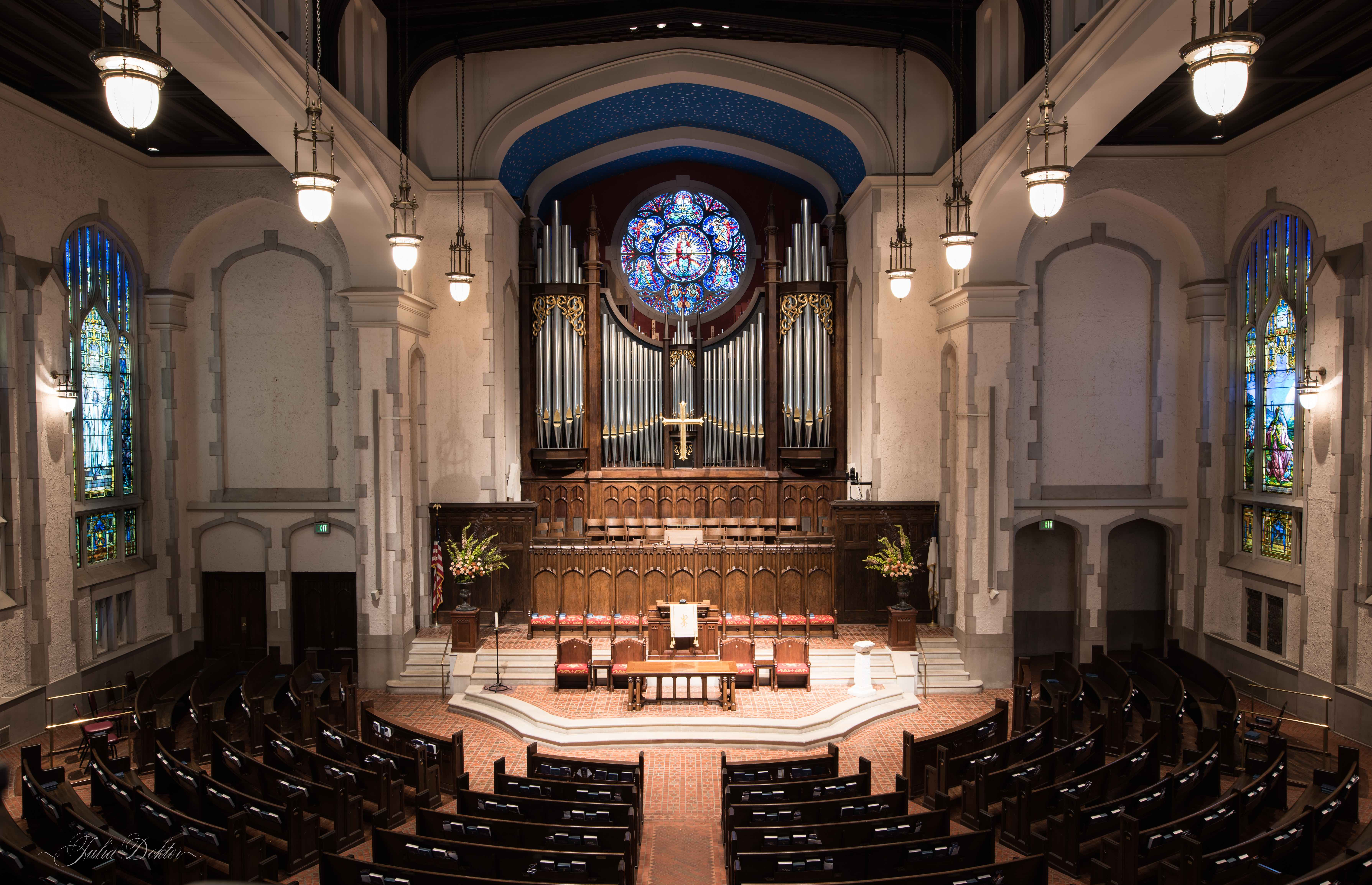 Klais/Schlueter Organ at FPC Atlanta (Julia Dokter Photography)